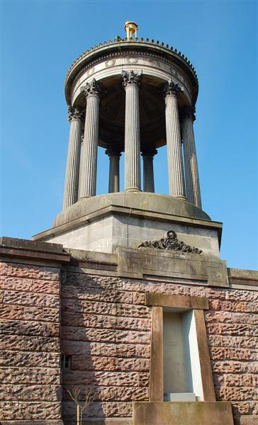 The Burns Monument Maintained by the National Trust for Scotland, this fine monument is set amid attractive gardens, near the Auld Brig O'Doon.